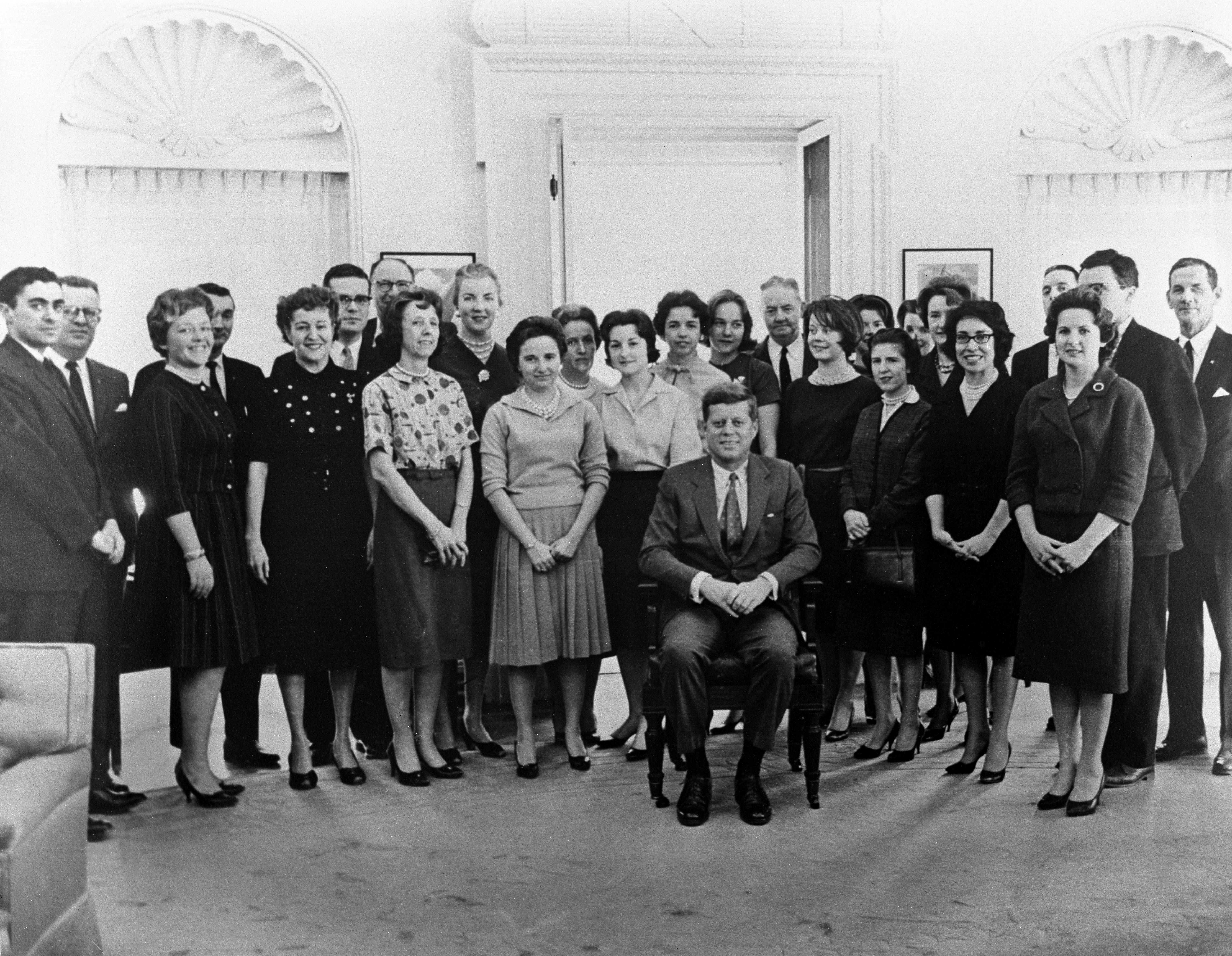 In this photograph President John F. Kennedy poses with his staff in the Oval Office, White House, Washington, D.C. (L-R) Front Row: Assistant Special Counsel to the President Richard Goodwin; Secretary to Pierre Salinger Sue Mortensen Vogelsinger; Staff Assistant Dorothy McCann; Personal Secretary to the President Evelyn Lincoln; two unidentified; President Kennedy; one unidentified; Staff Assistant Pierrette Spiegler; two unidentified. (L-R) Back Row: Special Assistant to the President for Congressional Liaison and Personnel Lawrence O'Brien; Special Assistant to the President Kenneth P. O'Donnell (partially hidden); Special Counsel to the President Theodore Sorensen; Special Assistant to the President Frederick Dutton; Secretary to Sanford Fox Myra Boland; Secretarial Assistant Pauline Fluet; Staff Assistant Jean Louis; one unidentified; White House Secret Service Agent, John J. "Muggsy" O'Leary; three unidentified; Special Assistant to the President Ralph Dungan; one unidentified; Special Assistant to the President Ted Reardon.